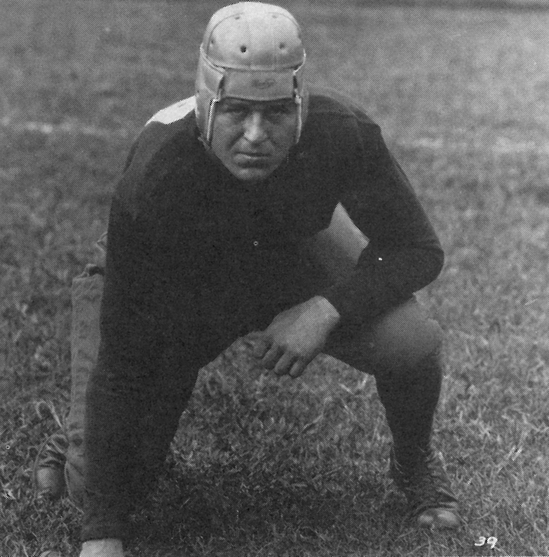 From source, "DAVE McARTHUR: Tackle, 1925–1927; All-Southern, 1927. Always got his man!!!"